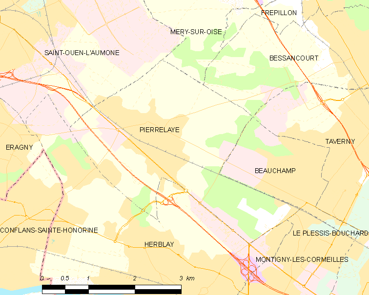 Map of French municipality Pierrelaye